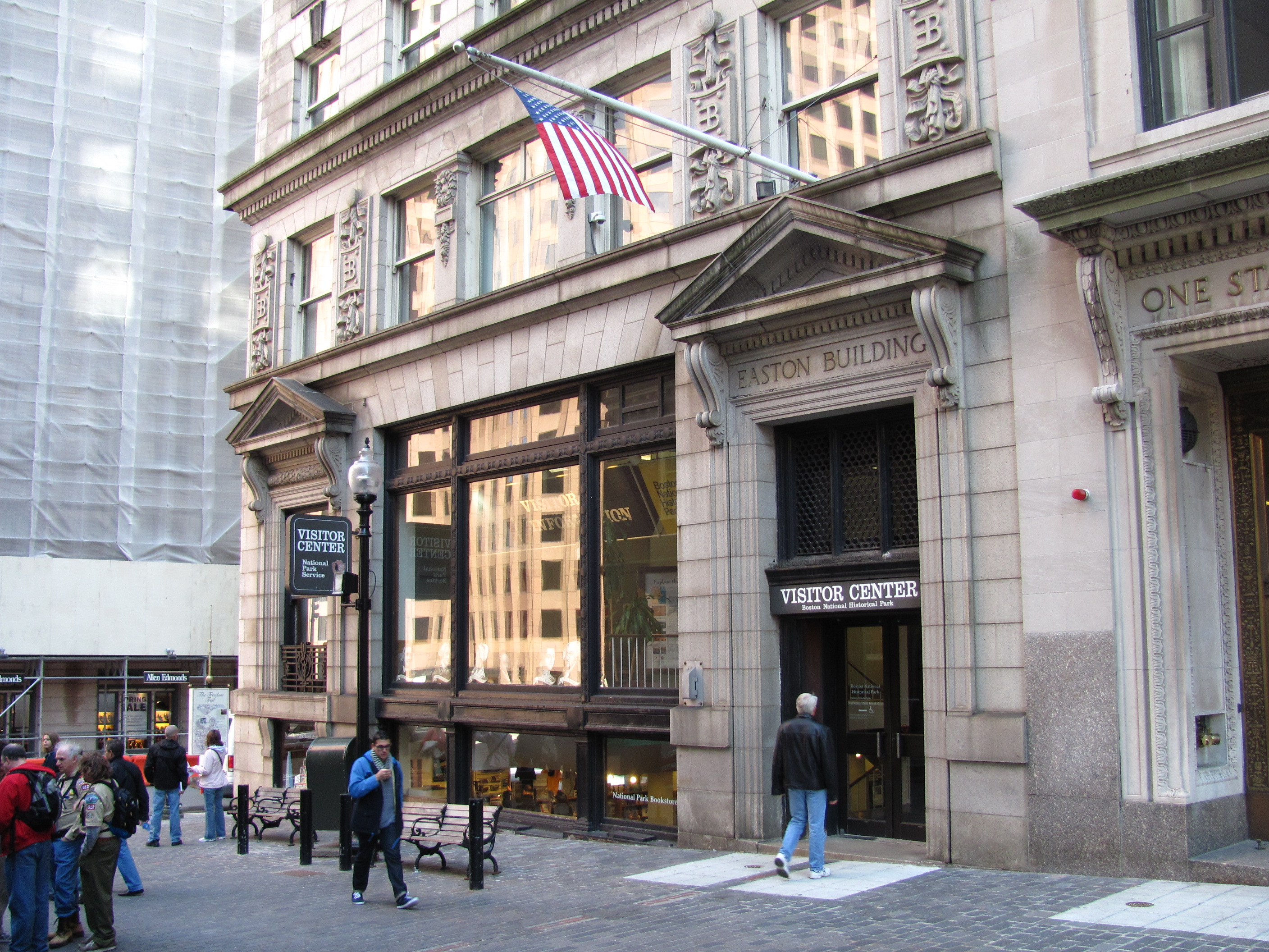 Boston National Historical Park Visitor Center, 15 State Street, Boston Massachusetts 02109-3502